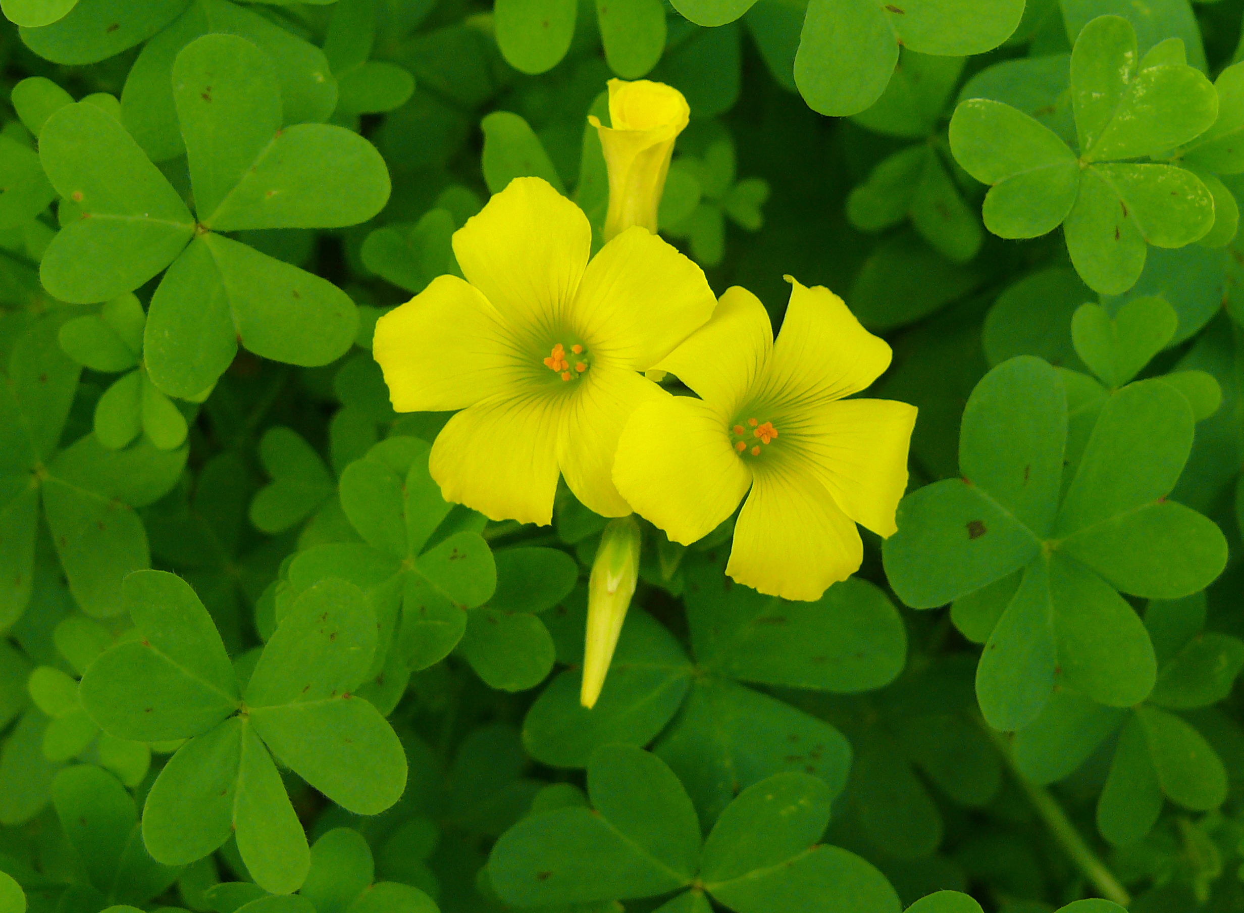 Oxalis pes-caprae